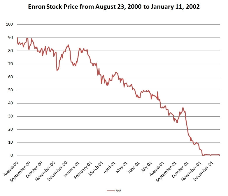 A line graph of Enron's stock price (in USD) from April 23, 2000 to January 11, 2002. Data compiled from Enron Securities Litigation Web Site.